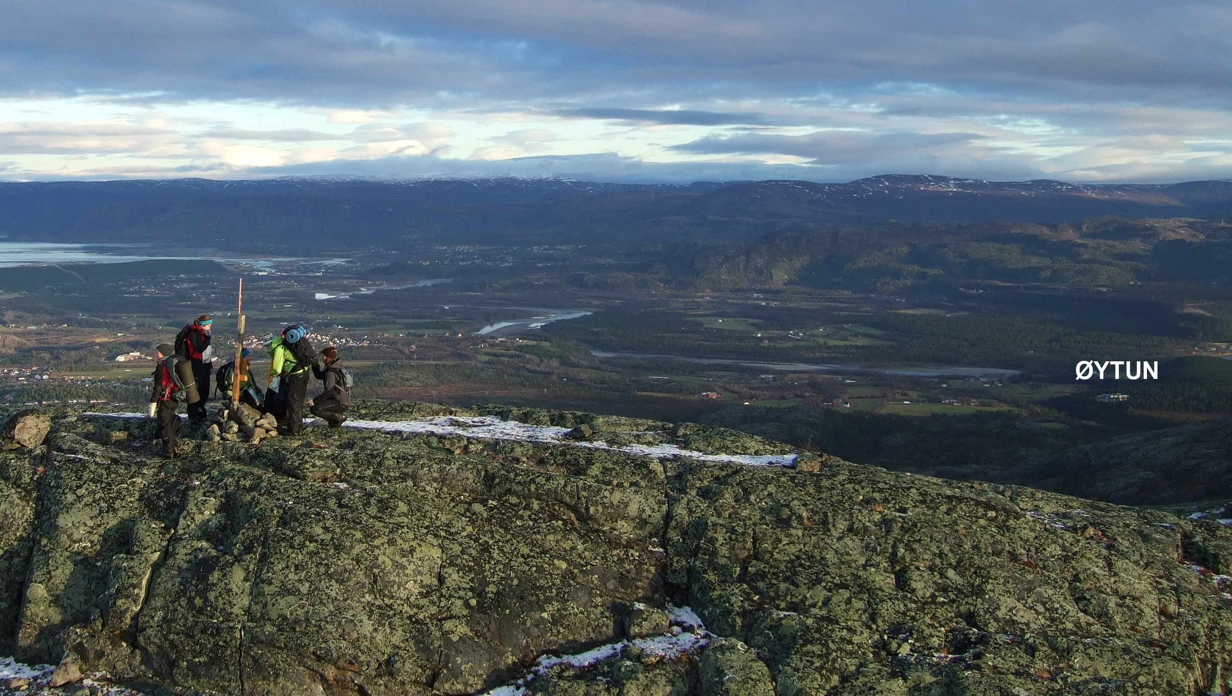 View over Alta with Øytun folkehøgskole from the mountain Skoddevarre